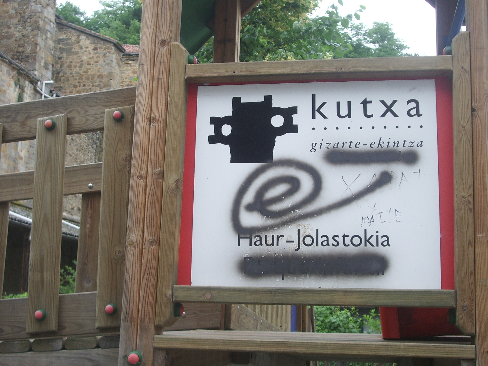 Euskal Herrian Euskaraz symbol (in the Basque Country in Basque) on a Basque-Spanish bilingual board, deleting text in Spanish (Zaldibia, Guipuscoa, Basque Country)